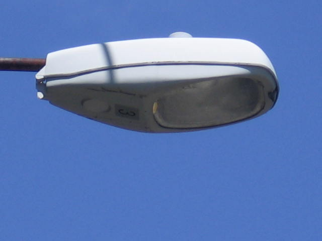 History of street lighting - Crouse-Hinds, OVS, Rare 35 watt full cutoff version found in Westwood, Massachusetts